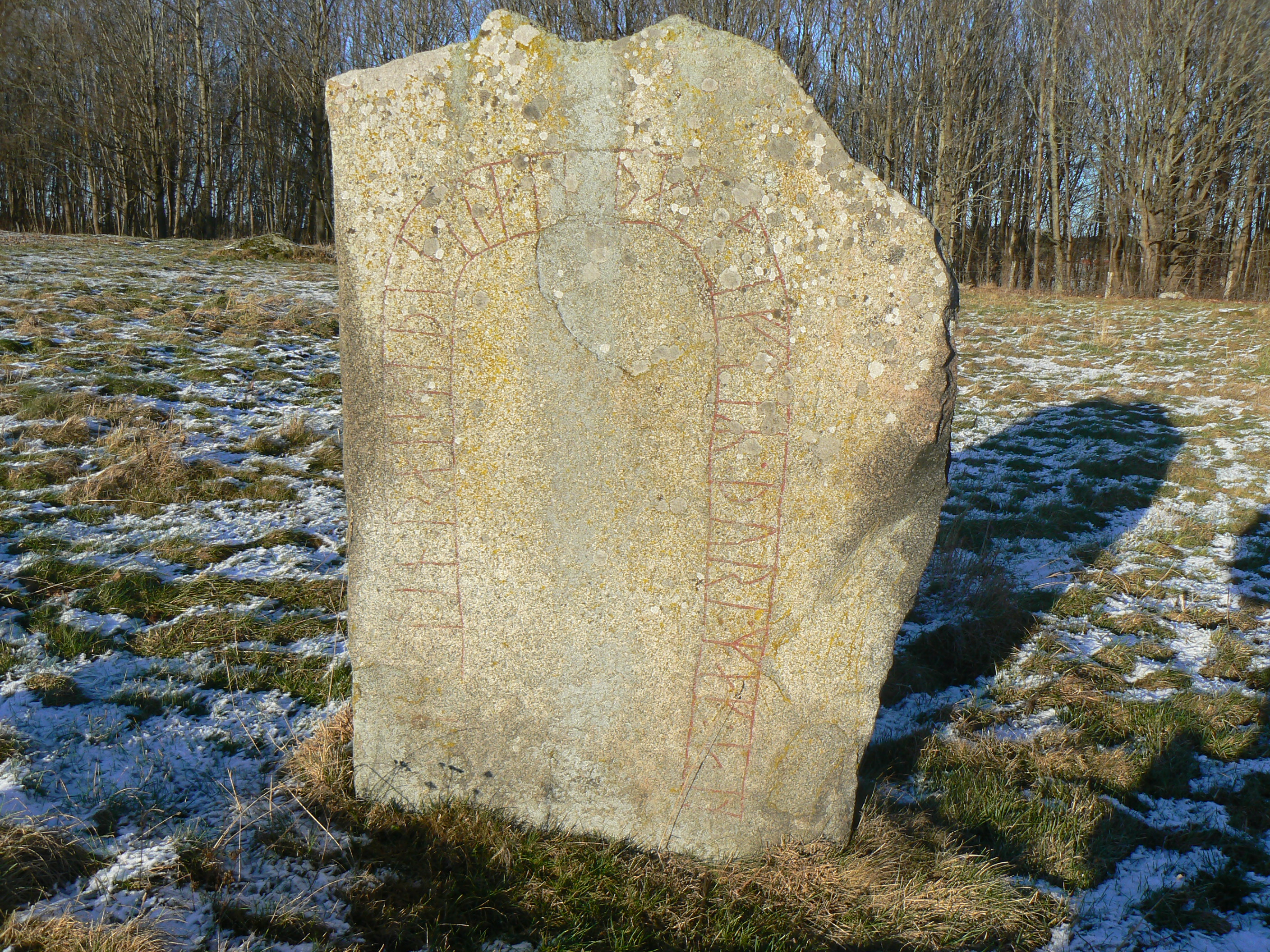 Runestone on a field west of Törnevalla church in Östergötland, Sweden. (Ög 223)